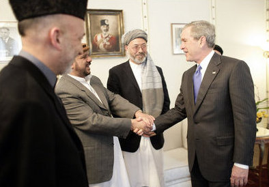 President George W. Bush meets members of President Hamid Karzai's government upon his arrival for a working lunch at the Presidential Palace in Kabul, Afghanistan Wednesday, March 1, 2006.